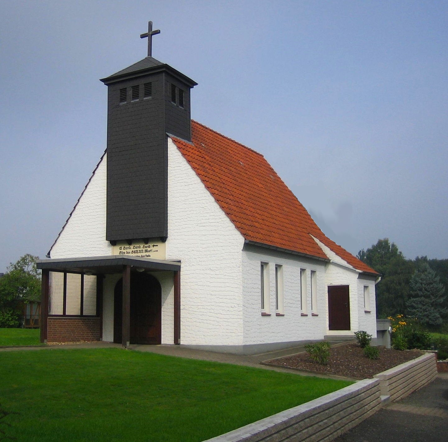 St. Petri Veltheim